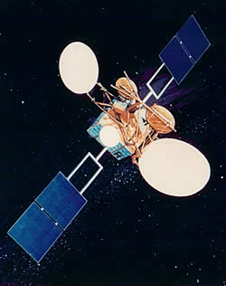 Advanced Communications Technology Satellite (ACTS)